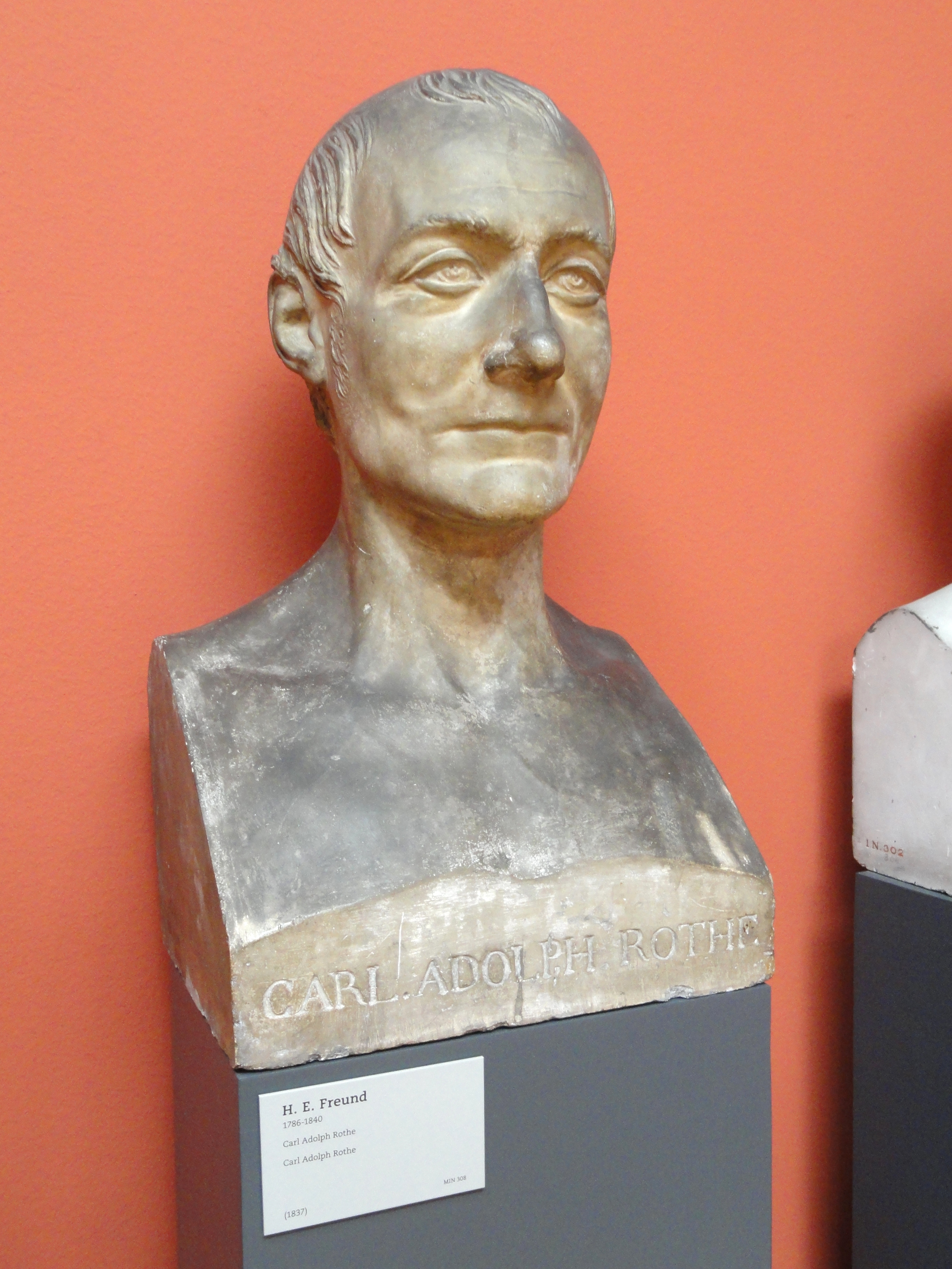 Sculpture exhibited in the Ny Carlsberg Glyptotek, Dantes Plads 7, Copenhagen, Denmark. This artwork is now in the public domain because the artist died more than 70 years ago.